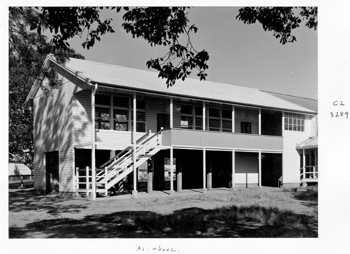 Acacia Ridge State School - Brisbane. (Original photo caption makes reference to Public Works Department)